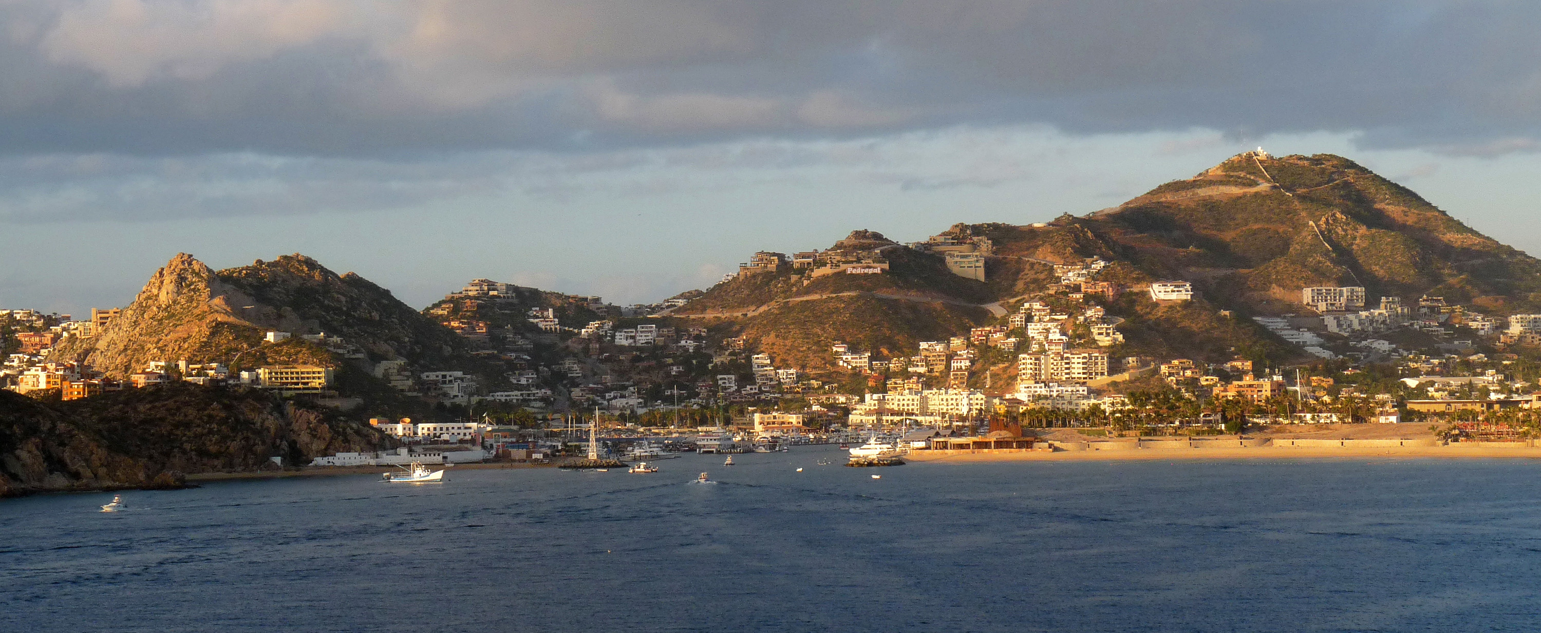 The town of Cabo San Lucas, shortly after sunrise, Cabo San Lucas.